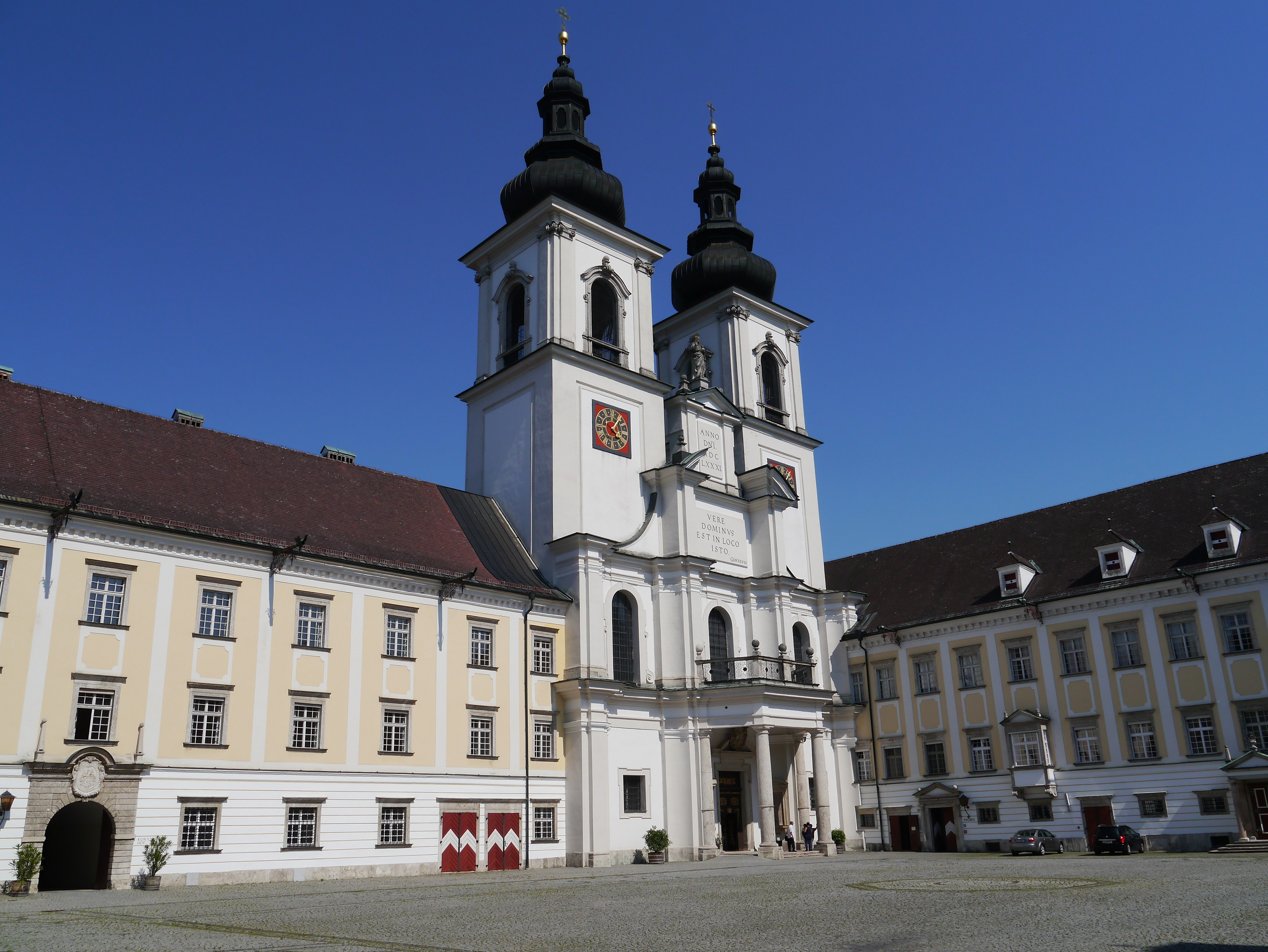 Second Inner Courtyard of Kremsmünster Abbey, Kremsmünster, Upper Austria